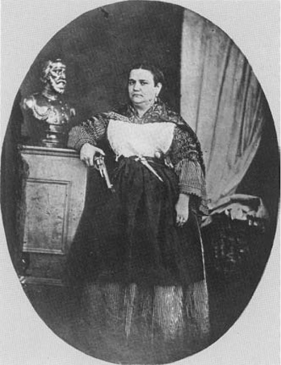 Old Portrait of Marianna de Crescenzo detta Giovannara, Neapolitan patriot